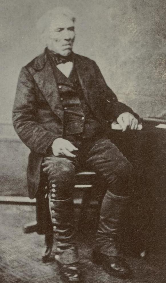 A portrait from the Welsh Portrait Collection at the National Library of Wales. Depicted person: Dafydd Jones – Welsh balladeer